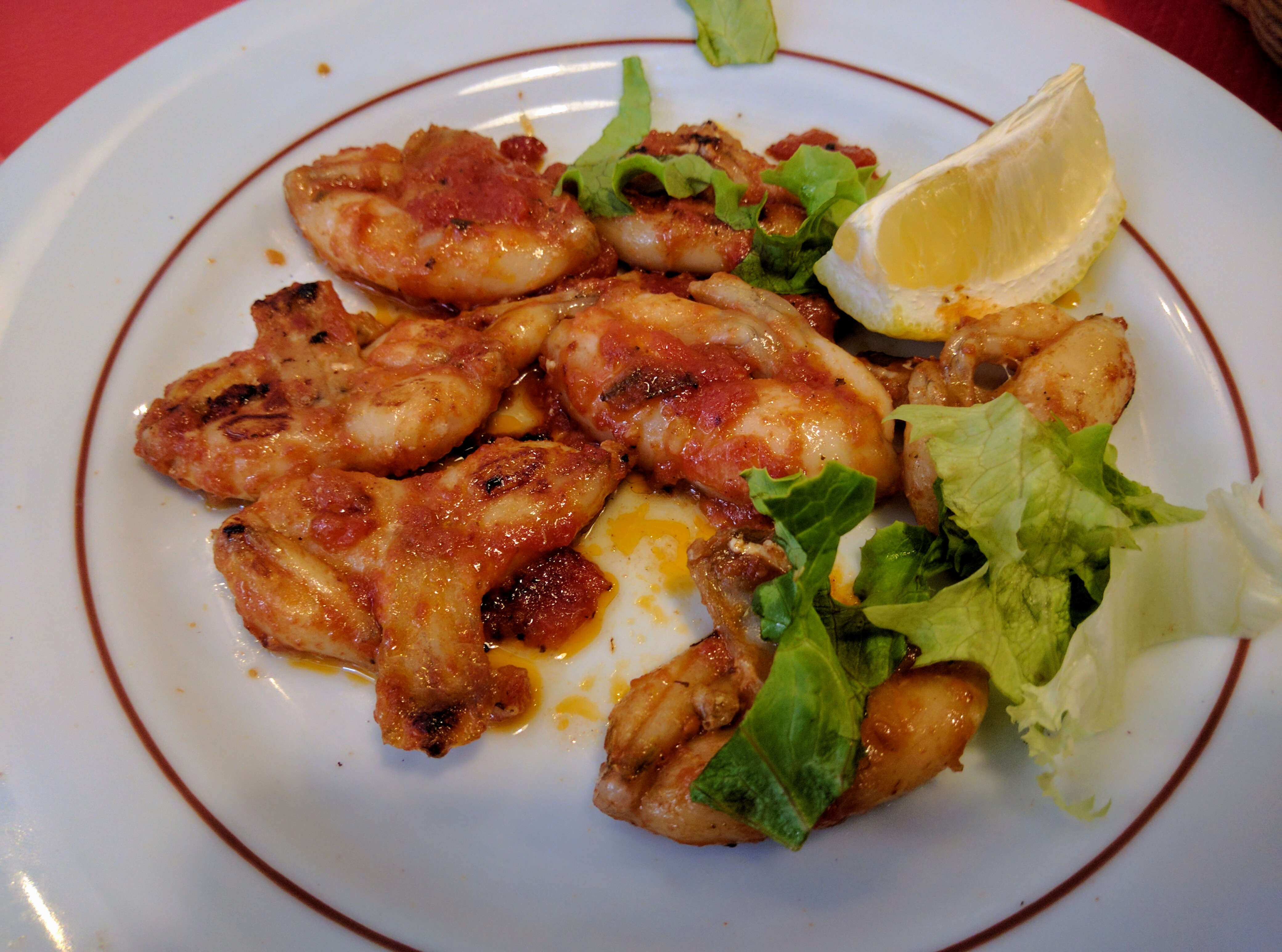 Fried frog legs